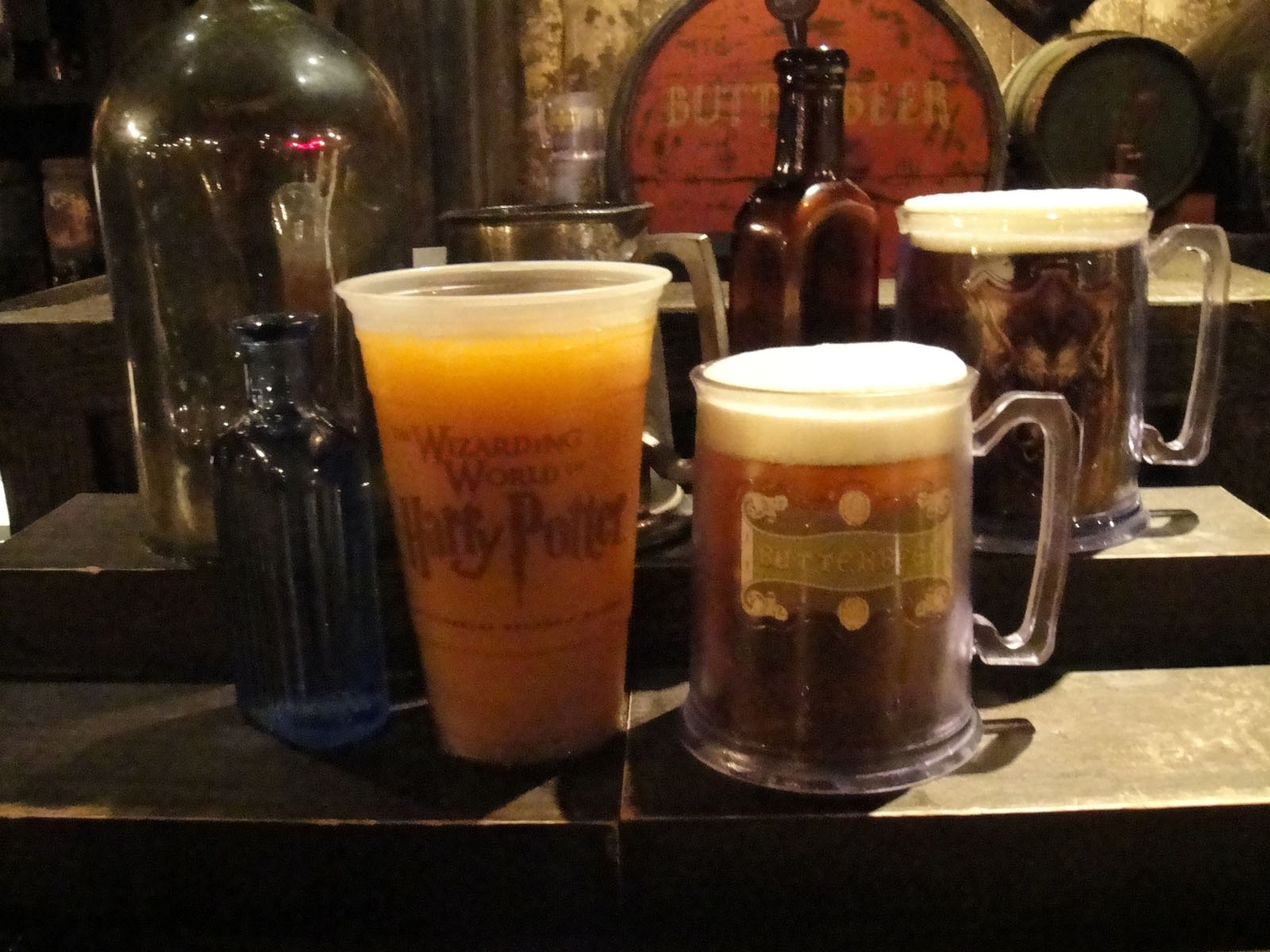 Wizarding World of Harry Potter - Hog's Head pub beverages